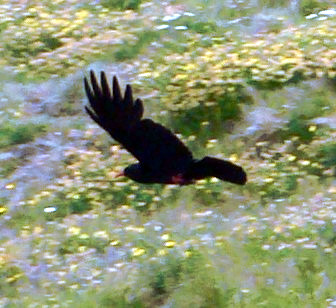 Red-billed Chough, nominate subspecies, South Stack, June 2008, my image